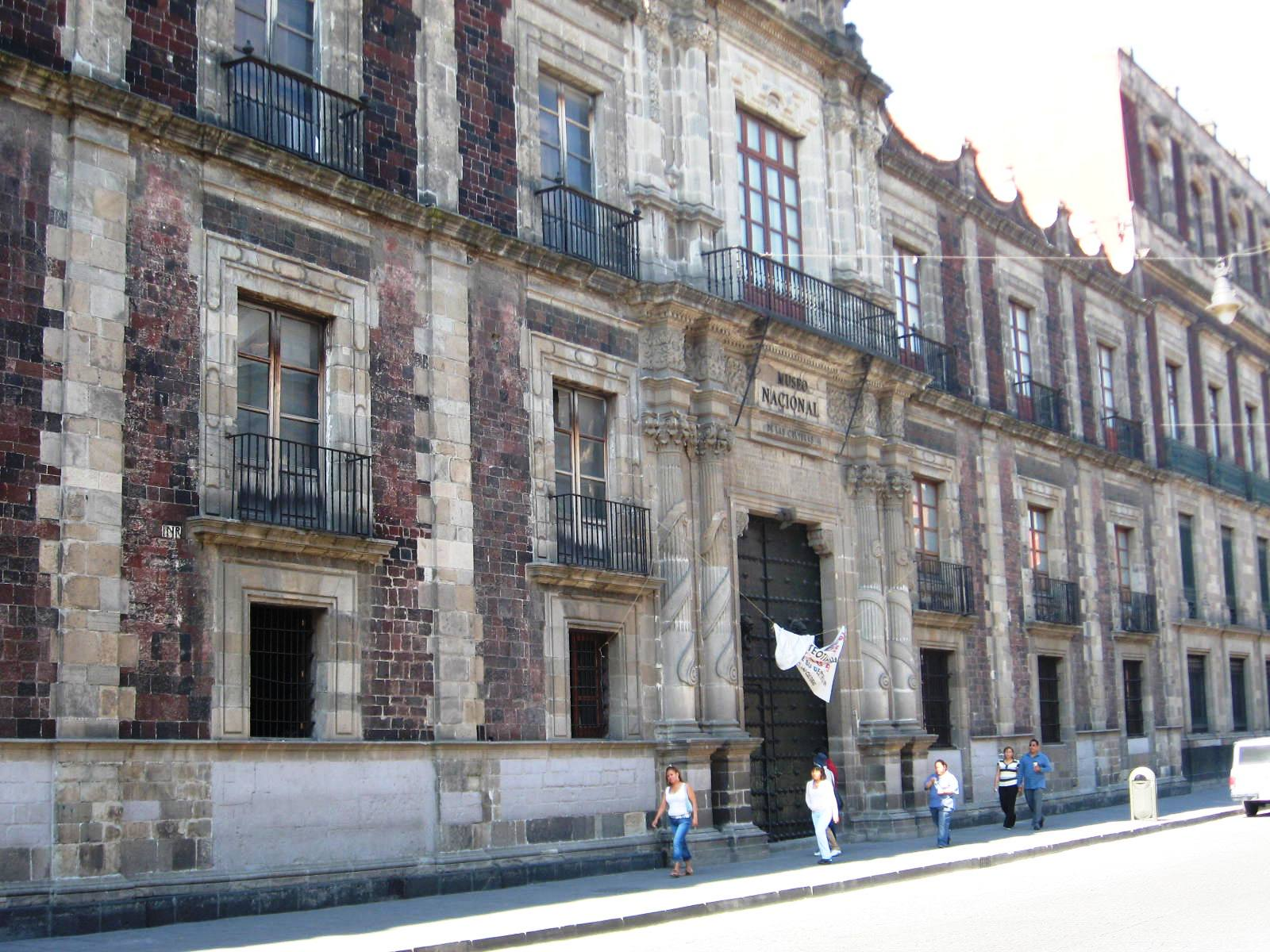 Facade of the National Museum of Cultures located on Moneda Street in Mexico City's historic center